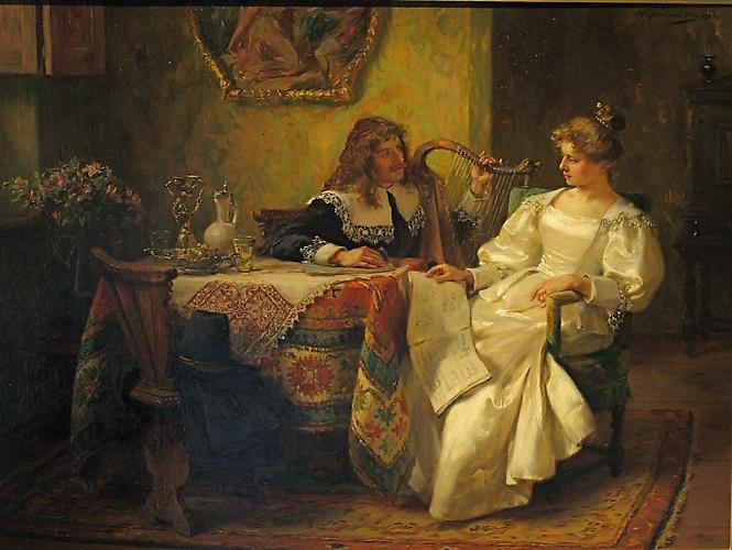 The music lesson